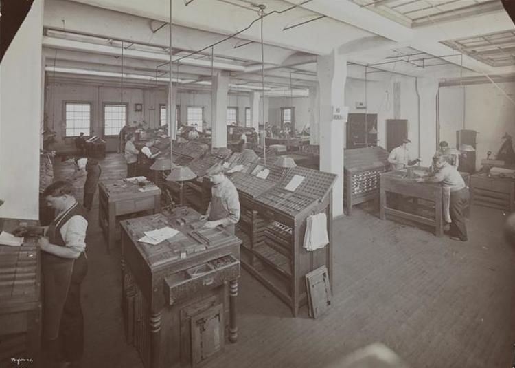 Typesetters at work at Street & Smith on 7th Avenue and 15th Street.